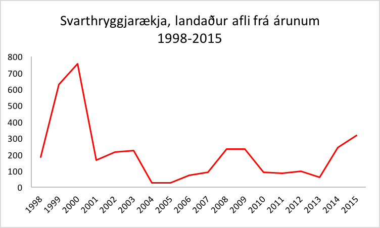 Línurit um landaðan afla.